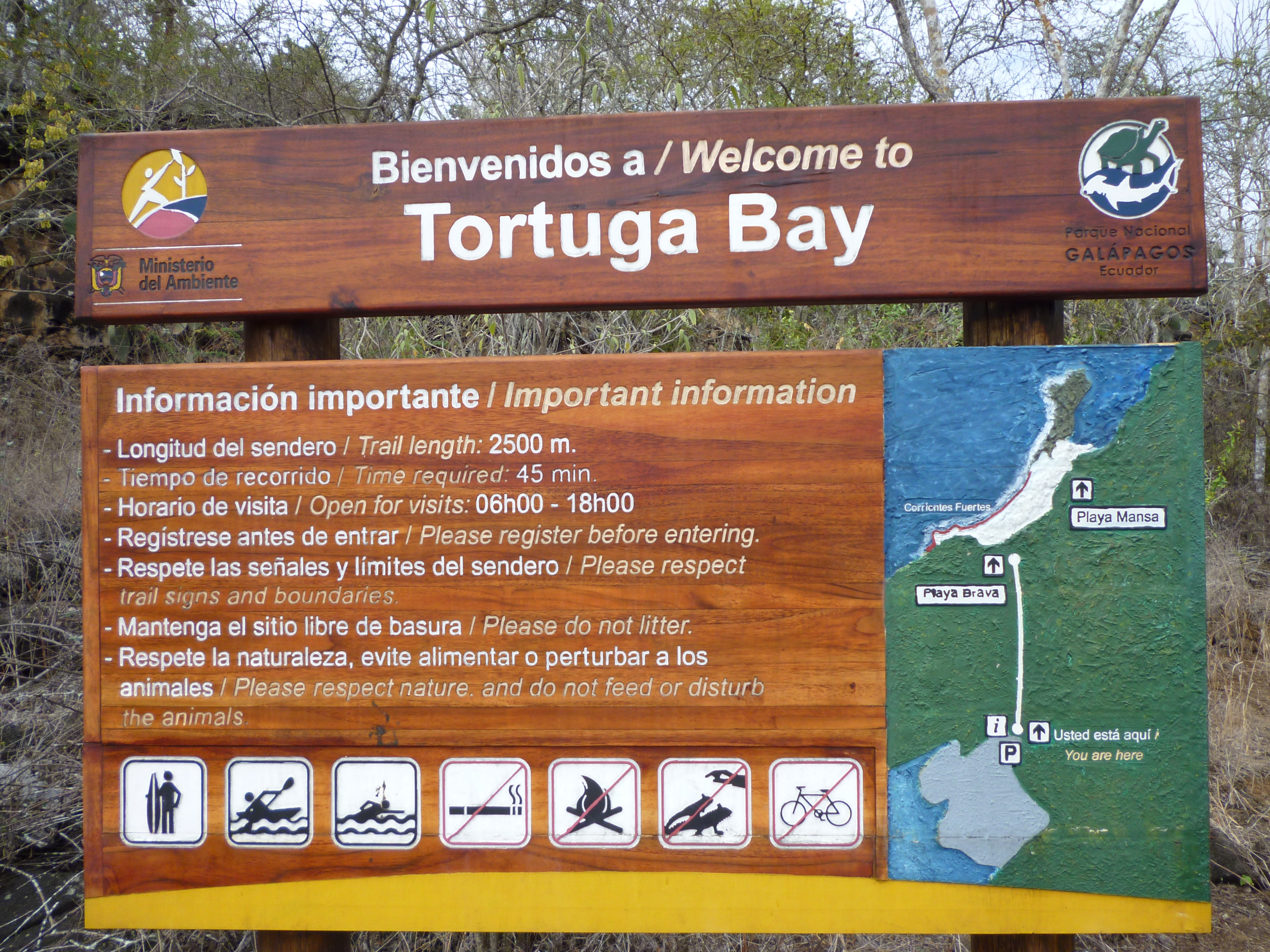 At the Tortuga Bay beach in the Galapagos is an informacion board, a photo by Alvaro Sevilla Design